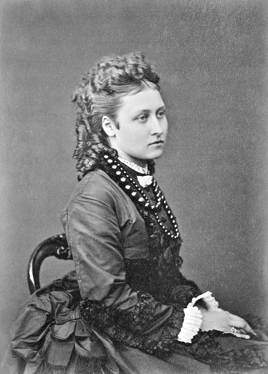 Princess Louise, later Marchioness of Lorne then Duchess of Argyll (touched up in photoshop)